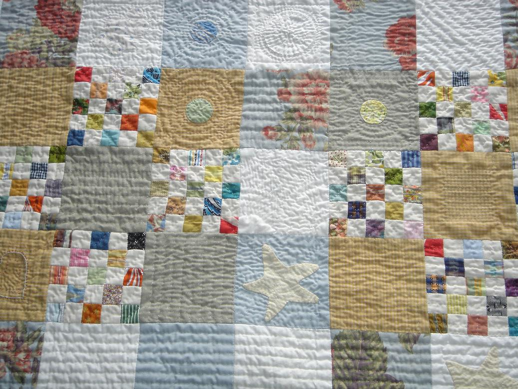 lots of quilting.